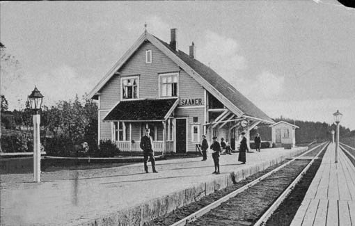 Såner Station on the Østfold Line in Norway. (Norsk Jernbane-Museum)